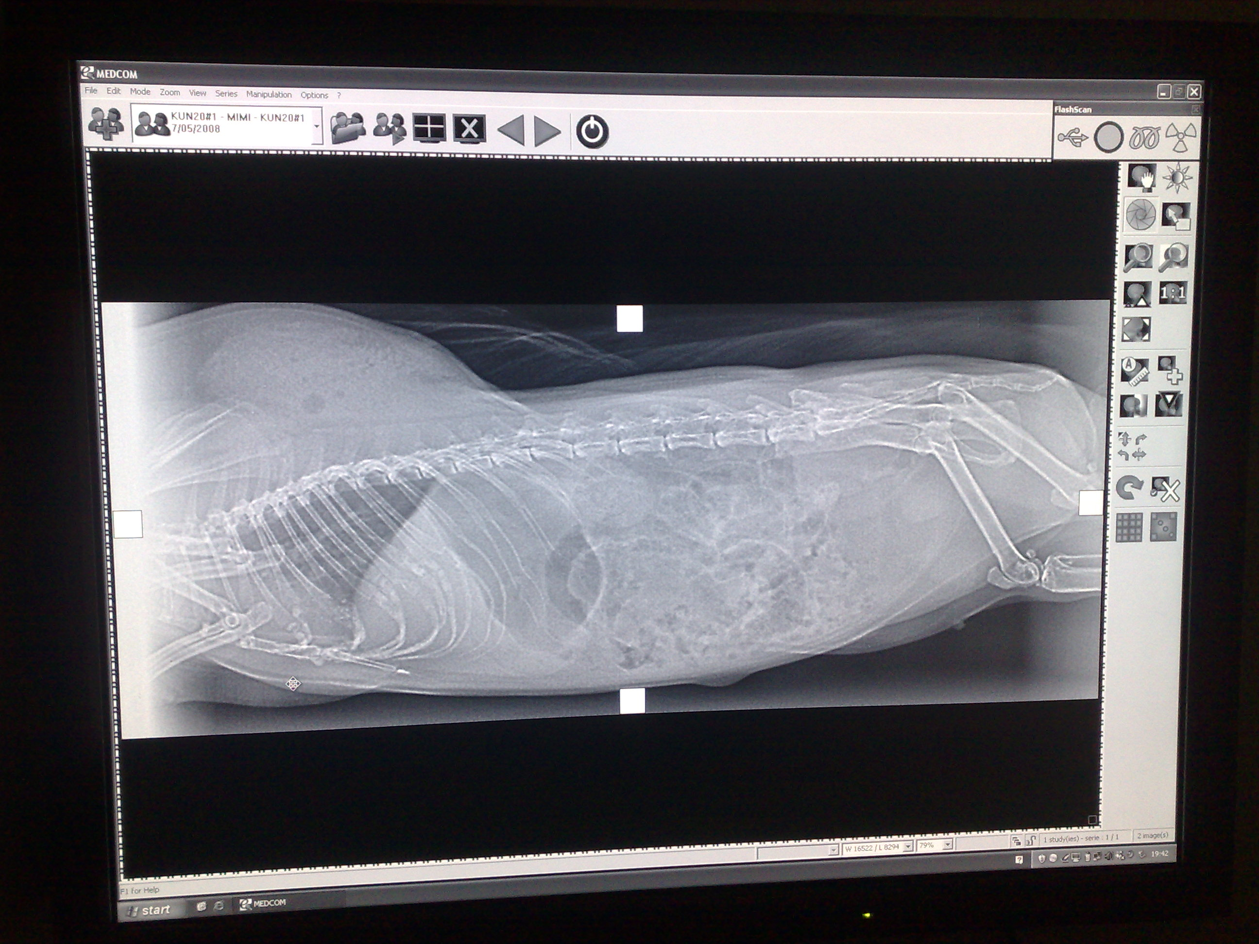 X-Ray of a Guinea Pig